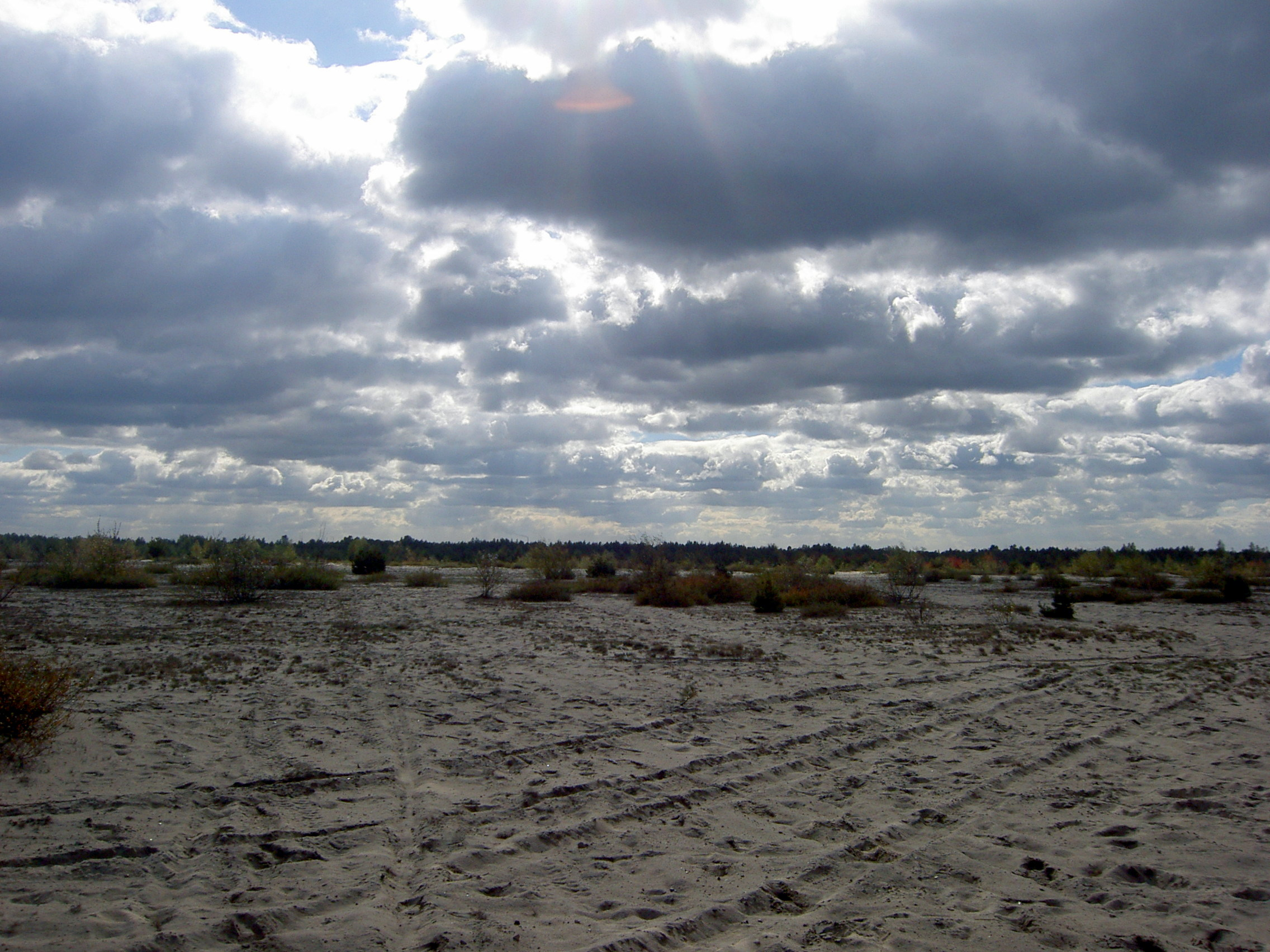 Błędów Desert or Polish Sahara on the Silesian Highlands in Poland / EU.